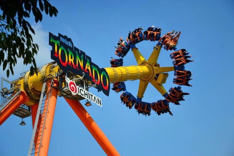 tornado 2